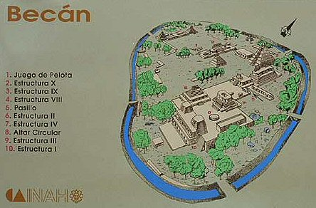 Map of Maya site of Becan, Campeche. Drawing by David F. Potter.